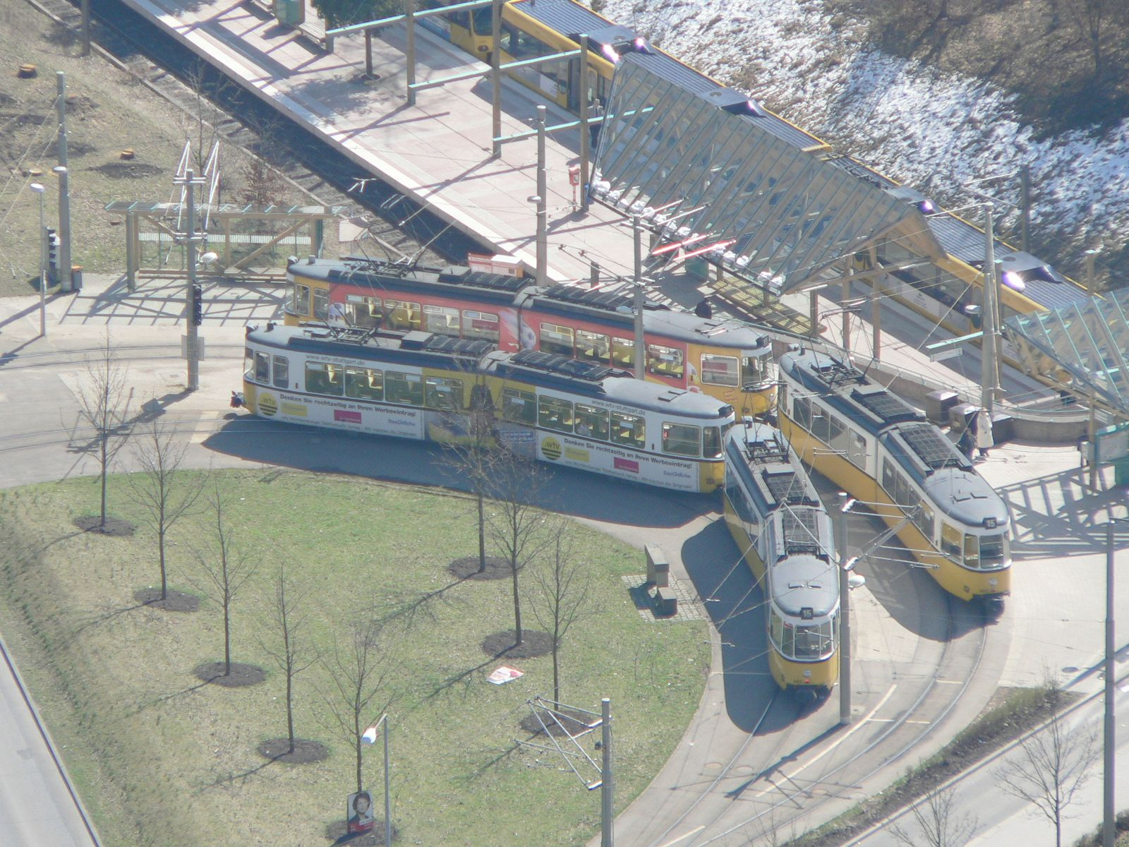 Trams GT4 in the terminal loop Ruhbank/Fernsehturm in Stuttgart, Germany